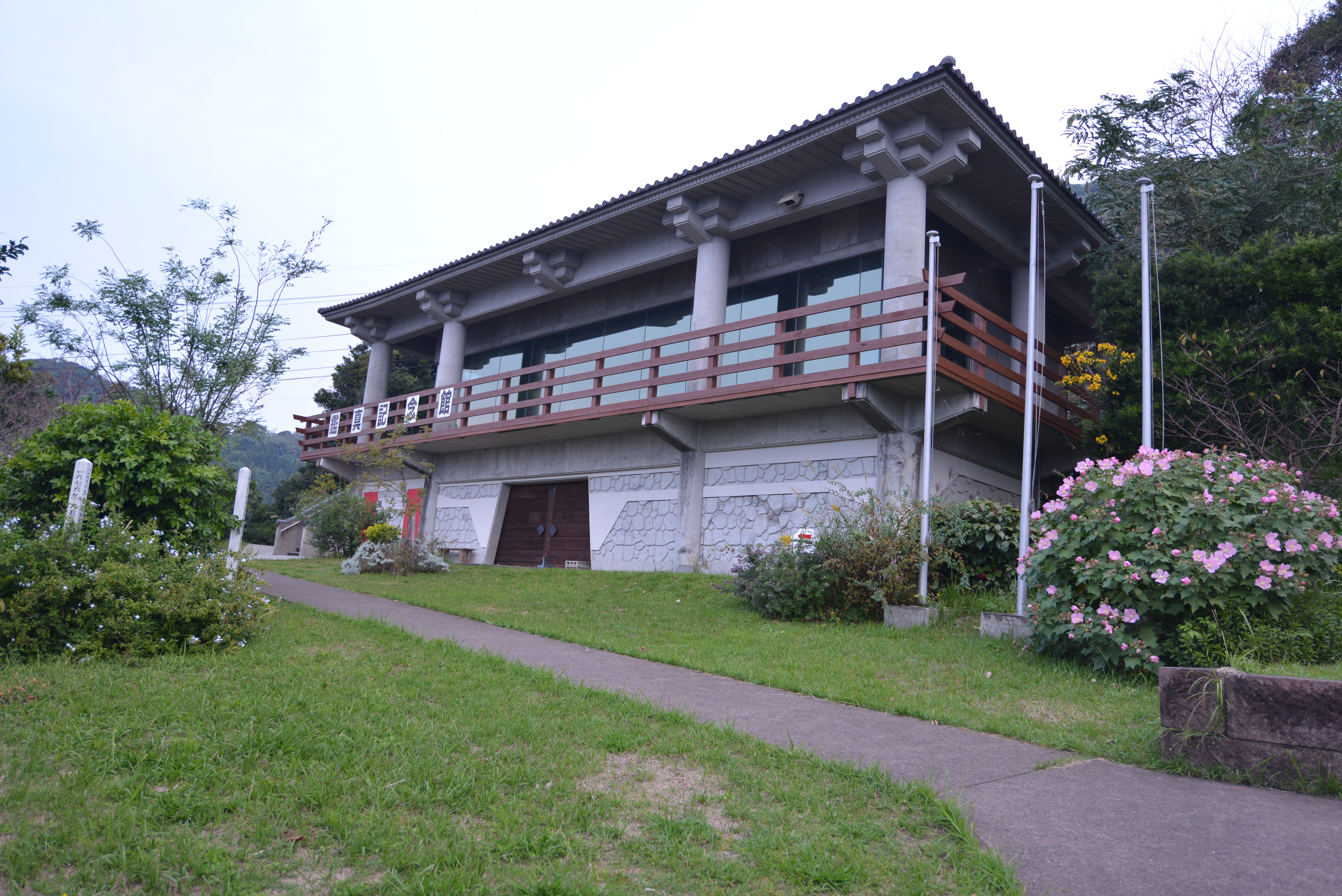 Jianzhen Museum, Minamisatsuma, Kagoshima, Japan